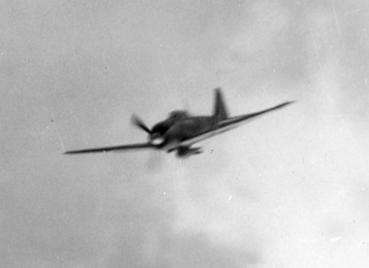 A Mitsubishi A6M Zero kamikaze attacking the U.S. Navy aircraft carrier USS Enterprise (CV-6) in 1945. This is probably the aircraft of Lt. J.G. Shunsuke Tomiyasu. On 14 May 1945, he hit the forward elevator, which was blown circa 120 m into the air. 14 sailors died and 34 were injured. The Big E had to return to the United States for repairs.